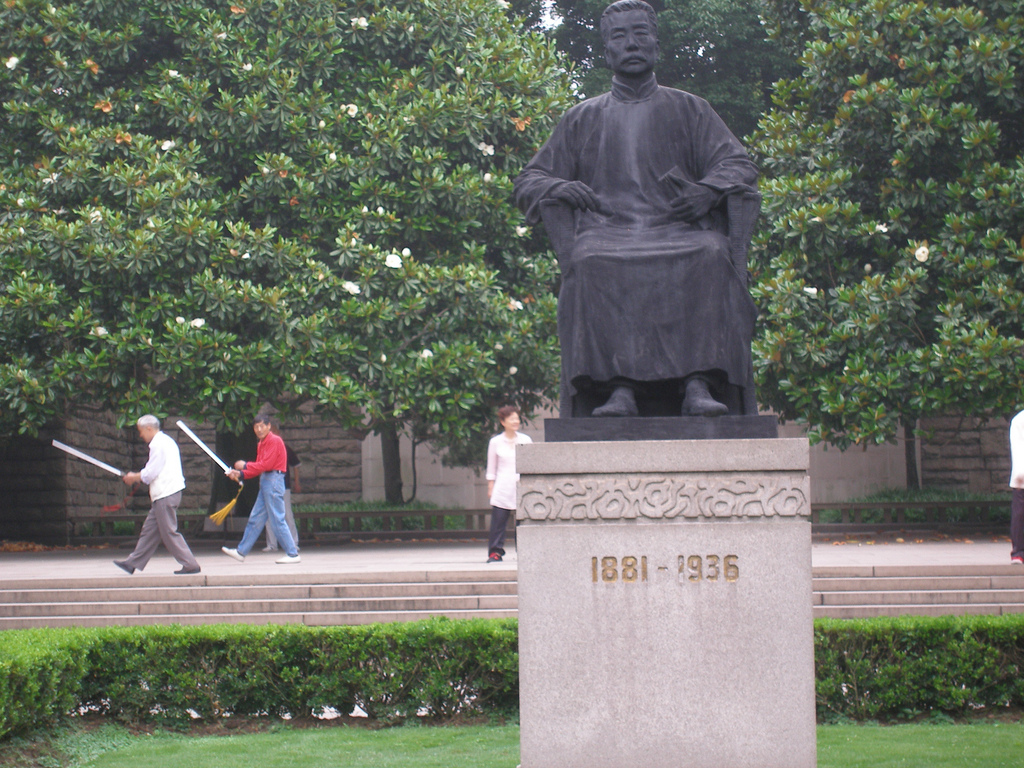 Statue of Lu Xun located in front of his grave